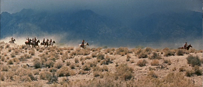 Indian attack in Comanche Station (1960)